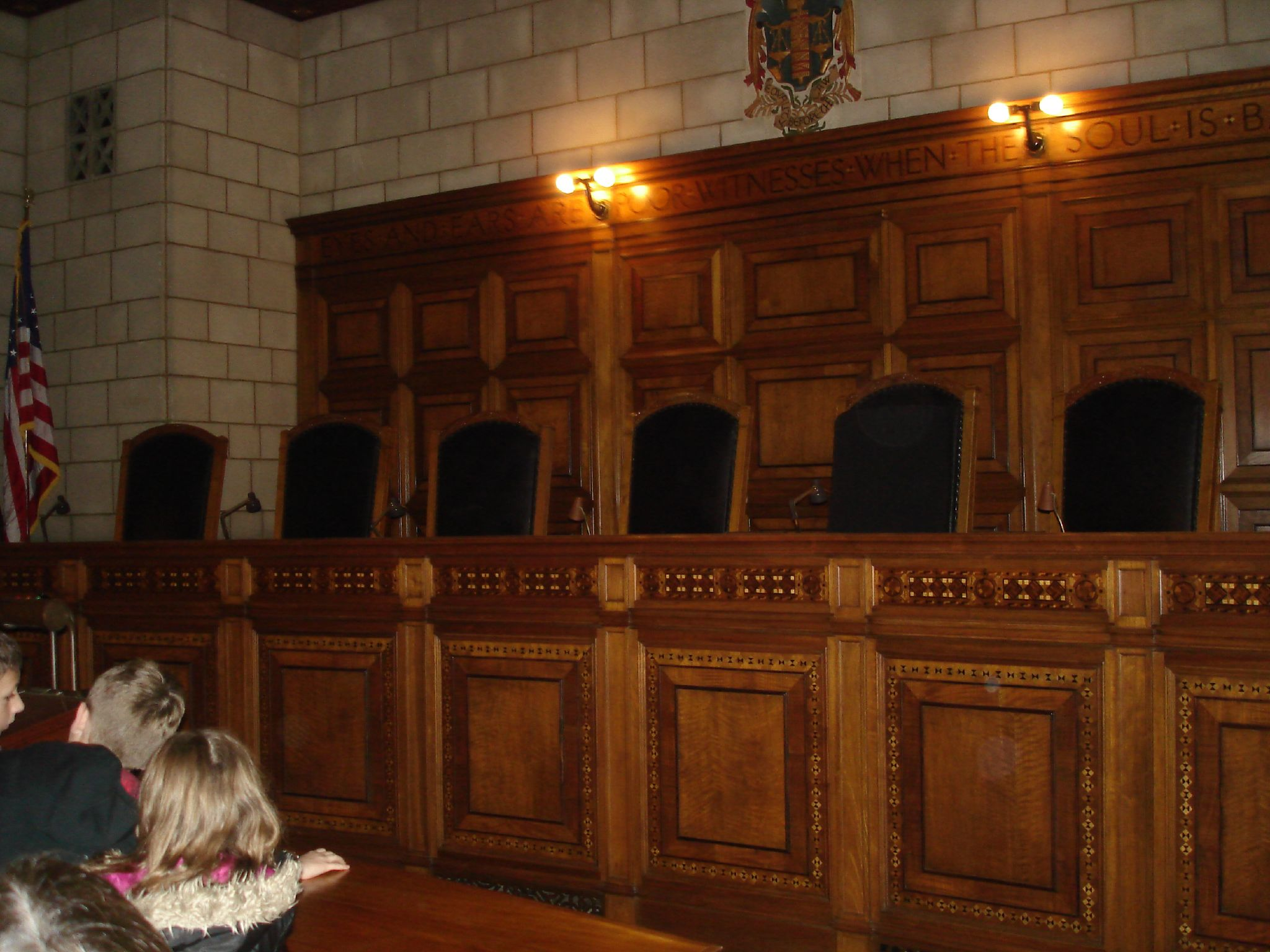 Empty today.